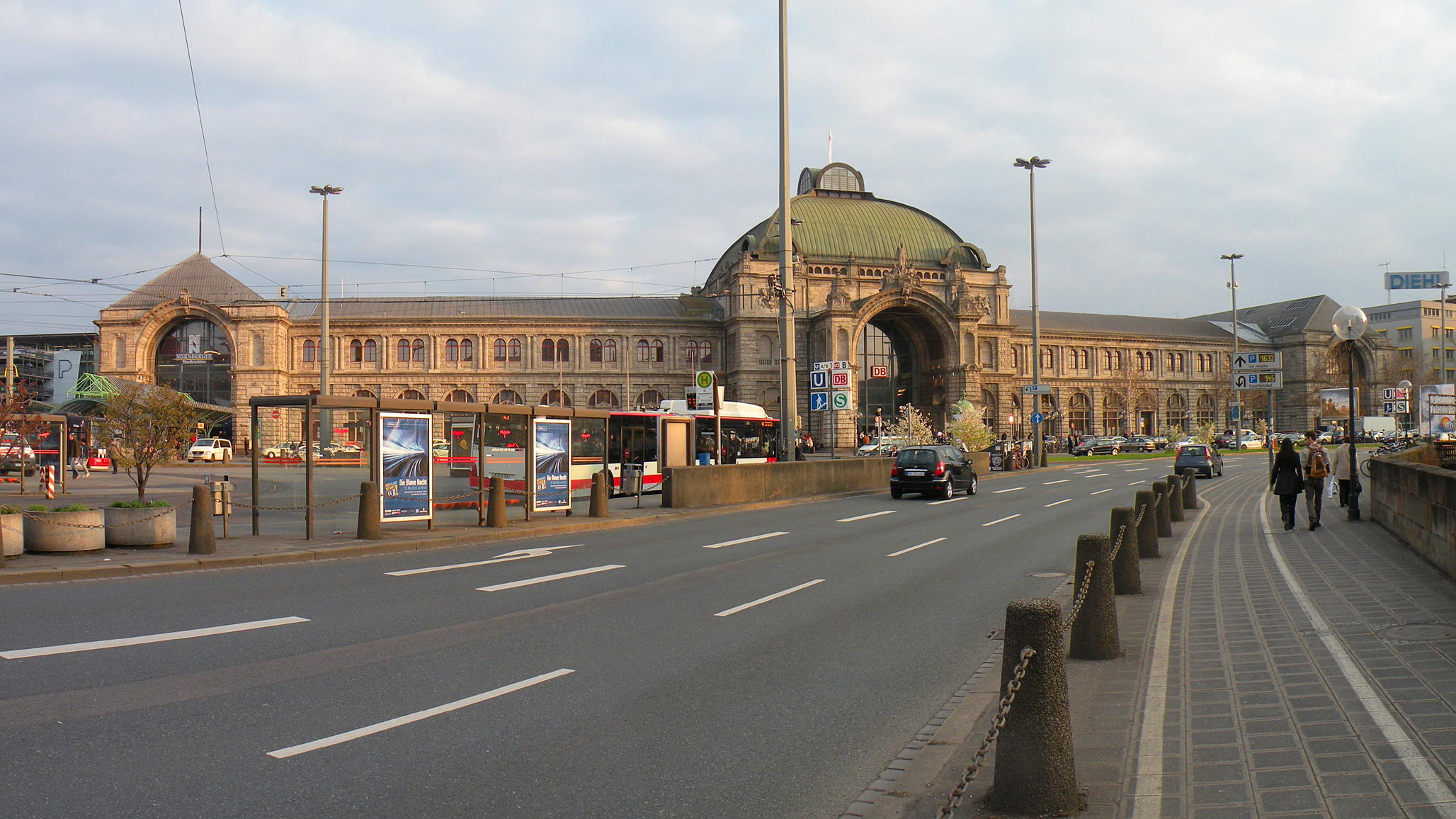 Nuremberg.Central railway station.